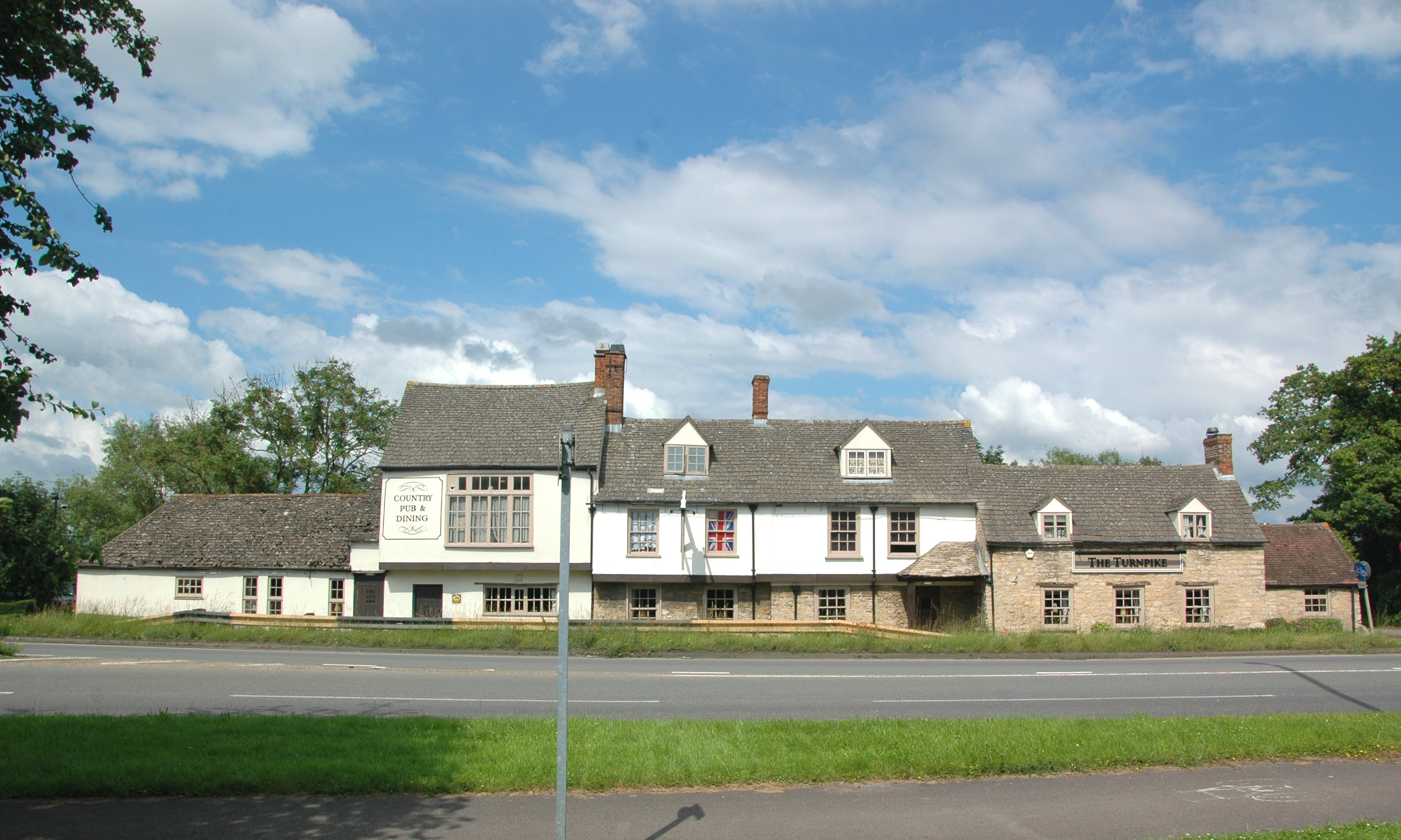 The Turnpike Inn (formerly the Grapes), Woodstock Road, Yarnton, Oxfordshire. Built in the 17th and 18th centuries as a private house, and the cottage at the right was added late in the 18th century.